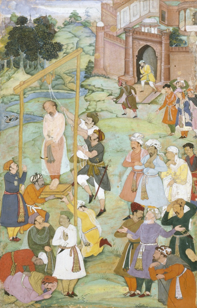 This folio from Walters manuscript W.650 depicts the hanging of Mansur al-Hallaj.